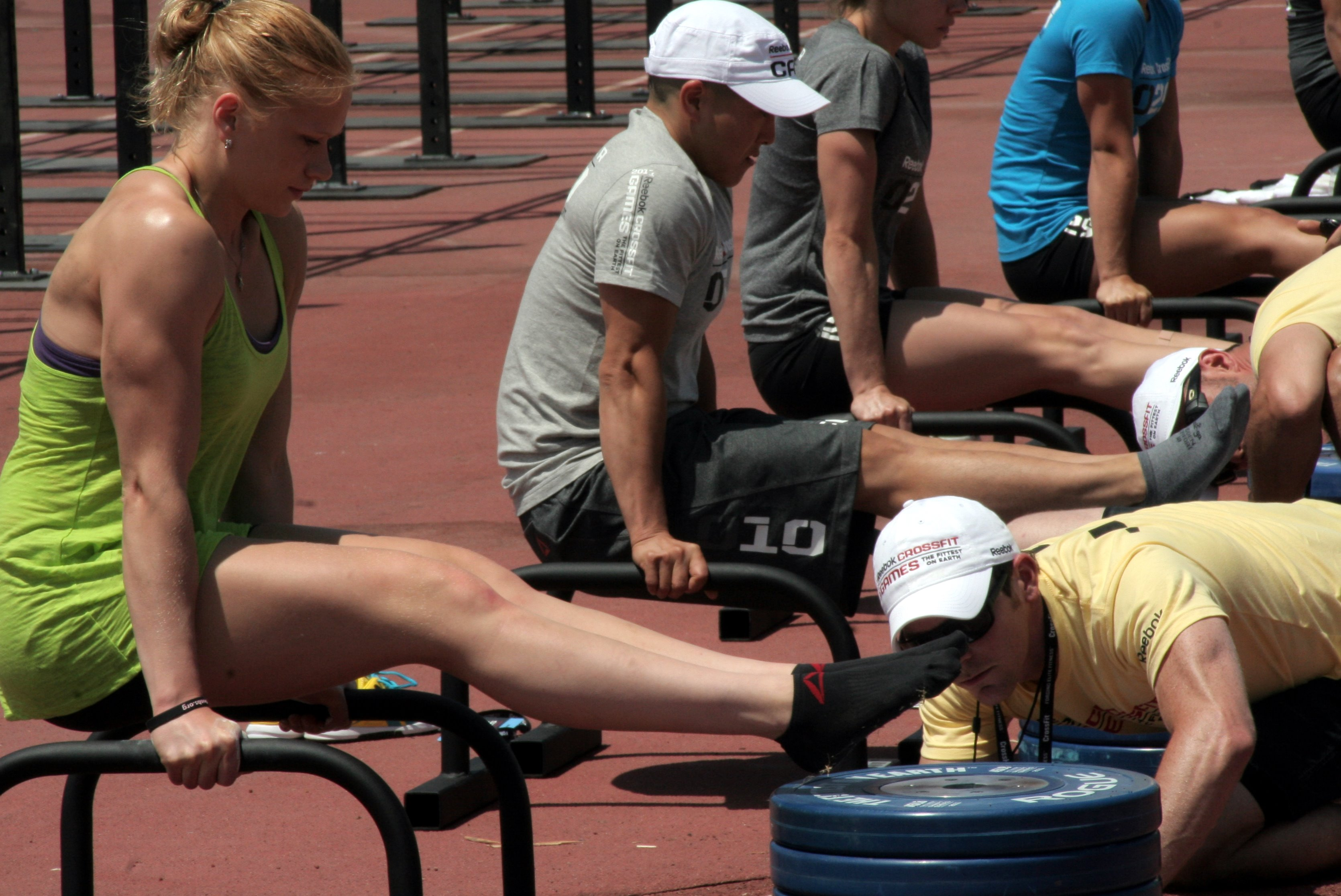 Kristan Clever is in the background. 2011 CrossFit Games - Carson, CA.